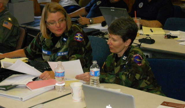 First Lt. Cristal LePrade (left) of the Maine Wing’s Bar Harbor Squadron and Capt. Sandy Riis of the New Hampshire Wing’s Concord Composite Squadron, look over mission reports in the Civil Air Patrol Northeast Region Area Coordination Center for Hurricane Sandy response missions.